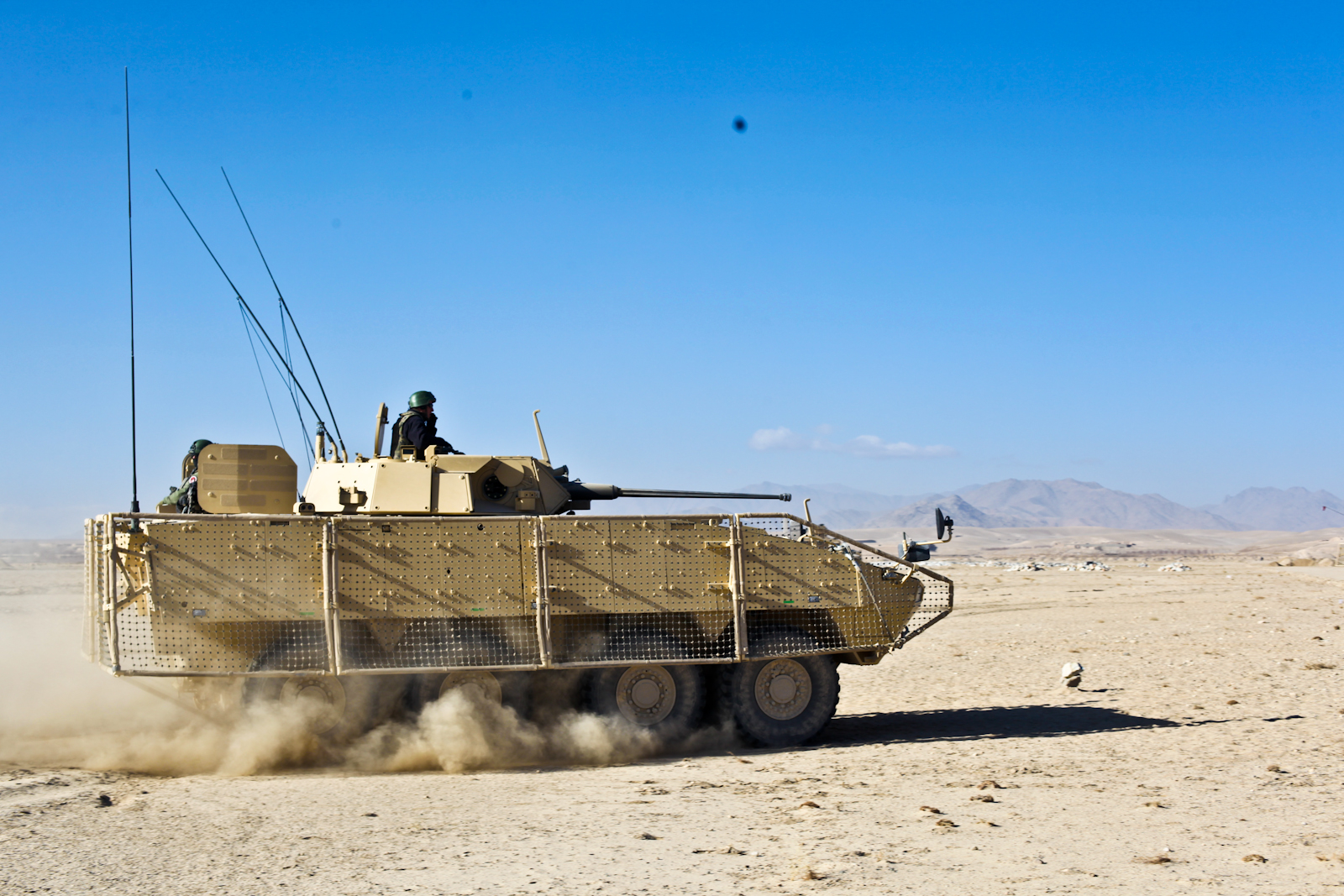 A Polish army Rosomak vehicle maneuvers through an open area Jan. 7, 2011, in Ghazni, Afghanistan. (U.S. Army photo by Sgt. Justin Howe/Released)